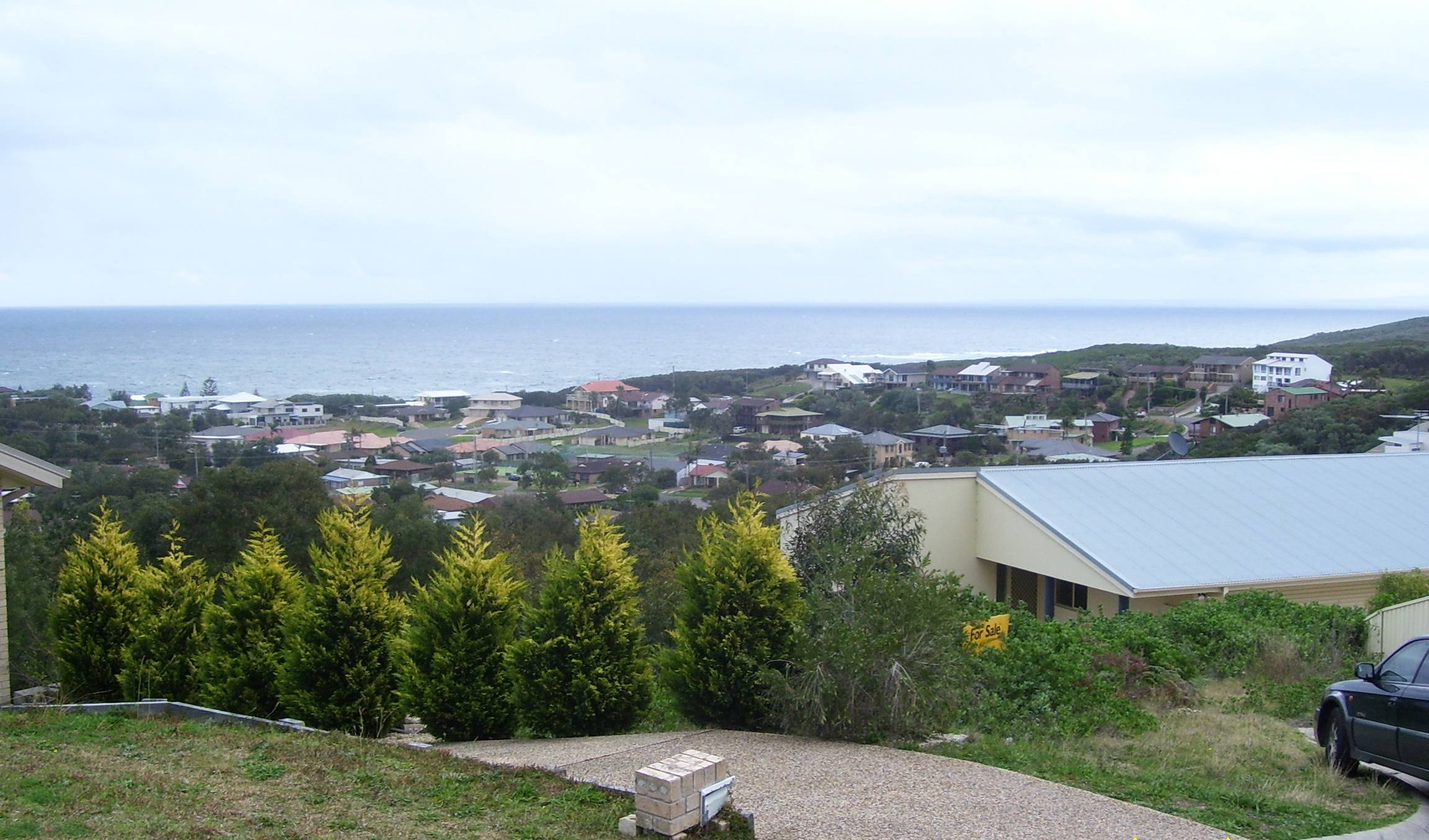 Boat Harbour, NSW. Although not clear in this image, Stockton Beach can be seen in the background. This image was taken from the highest public point in the suburb at an altitude of 220 ft ASL